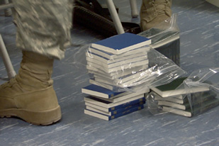 This is a still from a video made during an official religious gathering in Bagram where chaplains discussed with GIs what to do with a shipment of bibles one GI had been sent by his congregation back home. A GI filmed the meeting, and the video was eventually broadcast by Al Jazeera. American spokesmen claimed the video was misleading, claimed that chaplains had, in the end, confiscated the bibles, which were, eventually, burned.